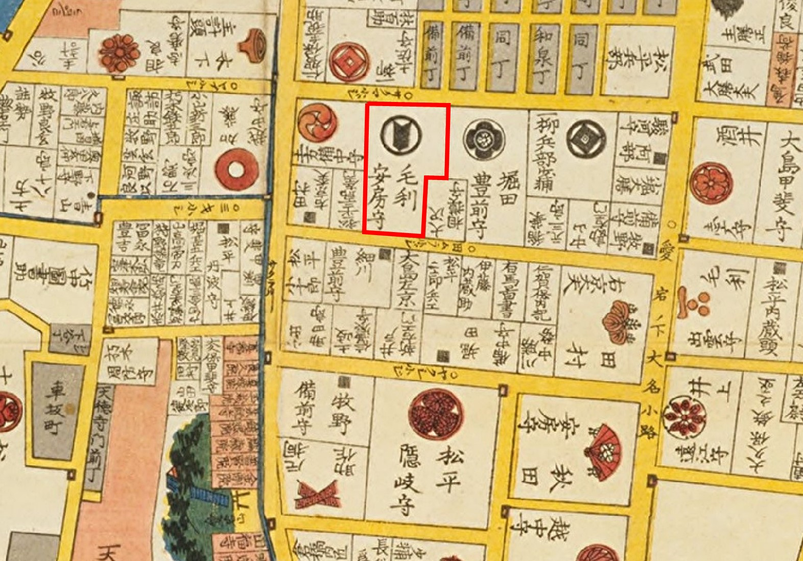 Residence of Môri Saiki clan at Edo